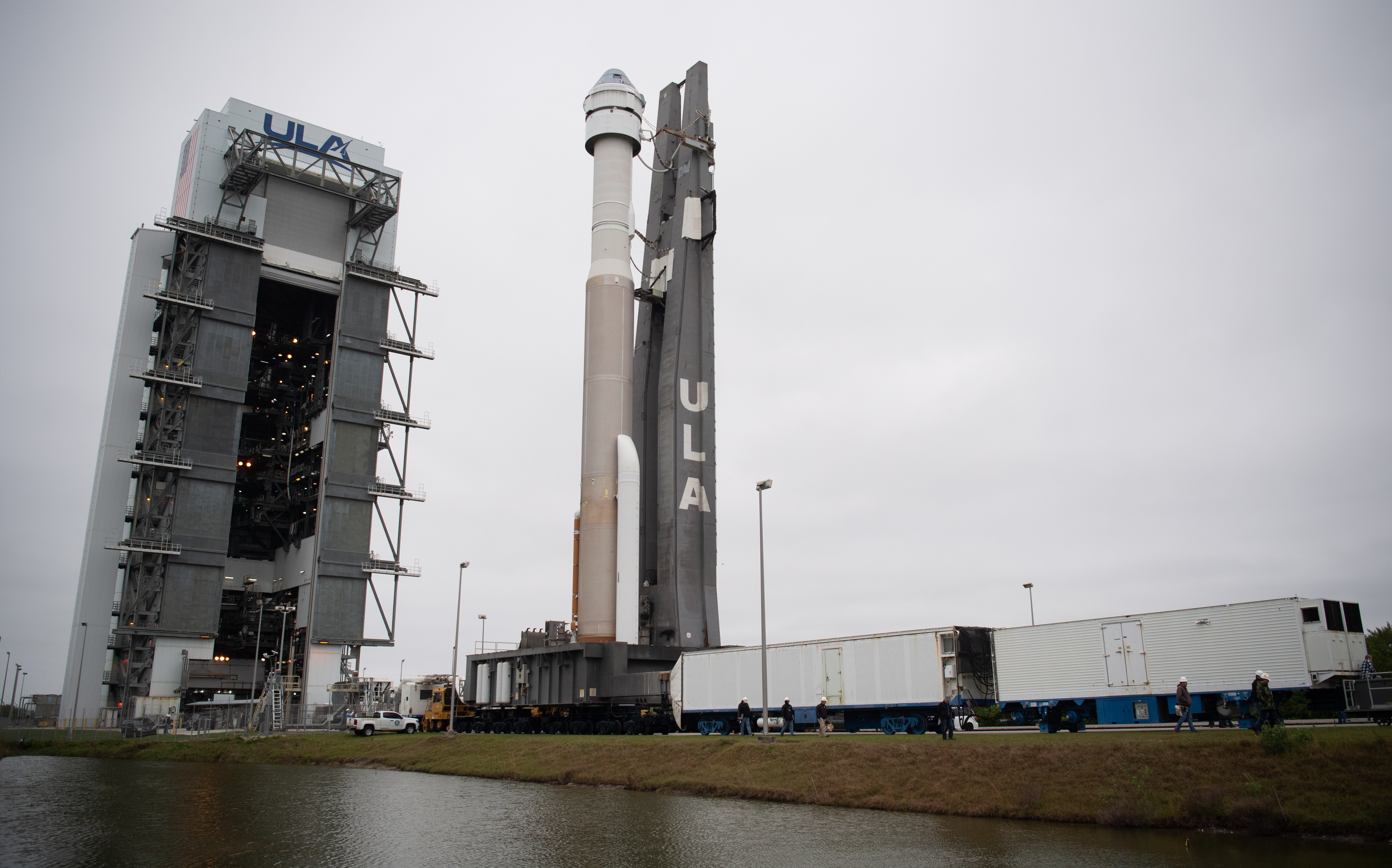 A United Launch Alliance Atlas V rocket with Boeing’s CST-100 Starliner spacecraft onboard is seen as it is rollout out of the Vertical Integration Facility to the launch pad at Space Launch Complex 41 ahead of the Orbital Flight Test mission, Wednesday, Dec. 18, 2019 at Cape Canaveral Air Force Station in Florida. The Orbital Flight Test with be Starliner’s maiden mission to the International Space Station for NASA's Commercial Crew Program. The mission, currently targeted for a 6:26 a.m. EST launch on Dec. 20, will serve as an end-to-end test of the system's capabilities.